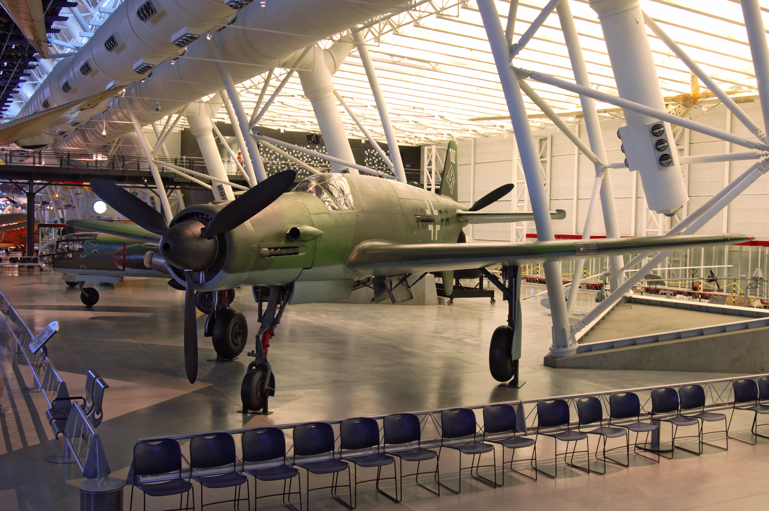 The last surviving Do 335 at the Udvar-Hazy/National Air and Space Museum in Washington, DC